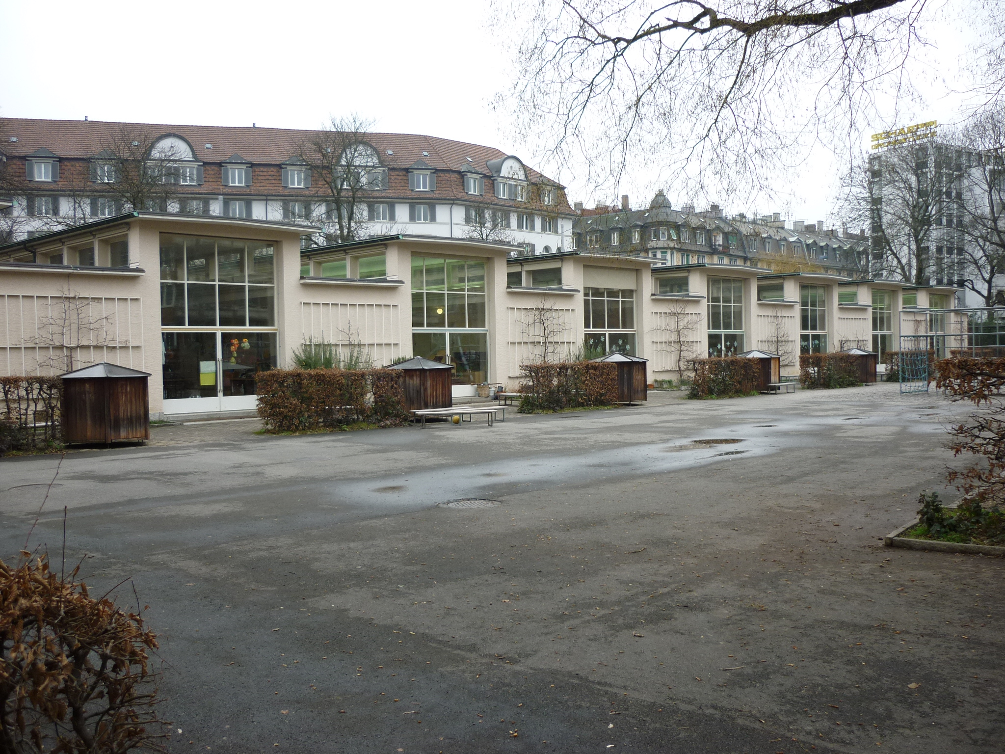 Kindergarten house, Sihlfeld, Switzerland, built in 1932, New Objectivity architecture